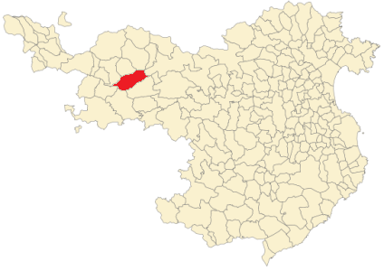 Ogassa